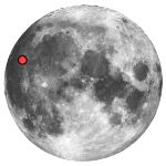 Description: Location of the Aristarchus crater on the Moon. The marker also shows the proximity of the Herodotus, Schiaparelli, and Väisälä craters. Source: This is a modified version of the photo obtained from the NASA Planetary Photojournal. It was modified by RJHall. Width: 150 pixels Height: 150 pixels